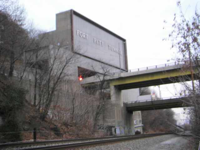 The Fort Pitt Tunnel between downtown Pittsburgh and its West End neighborhood